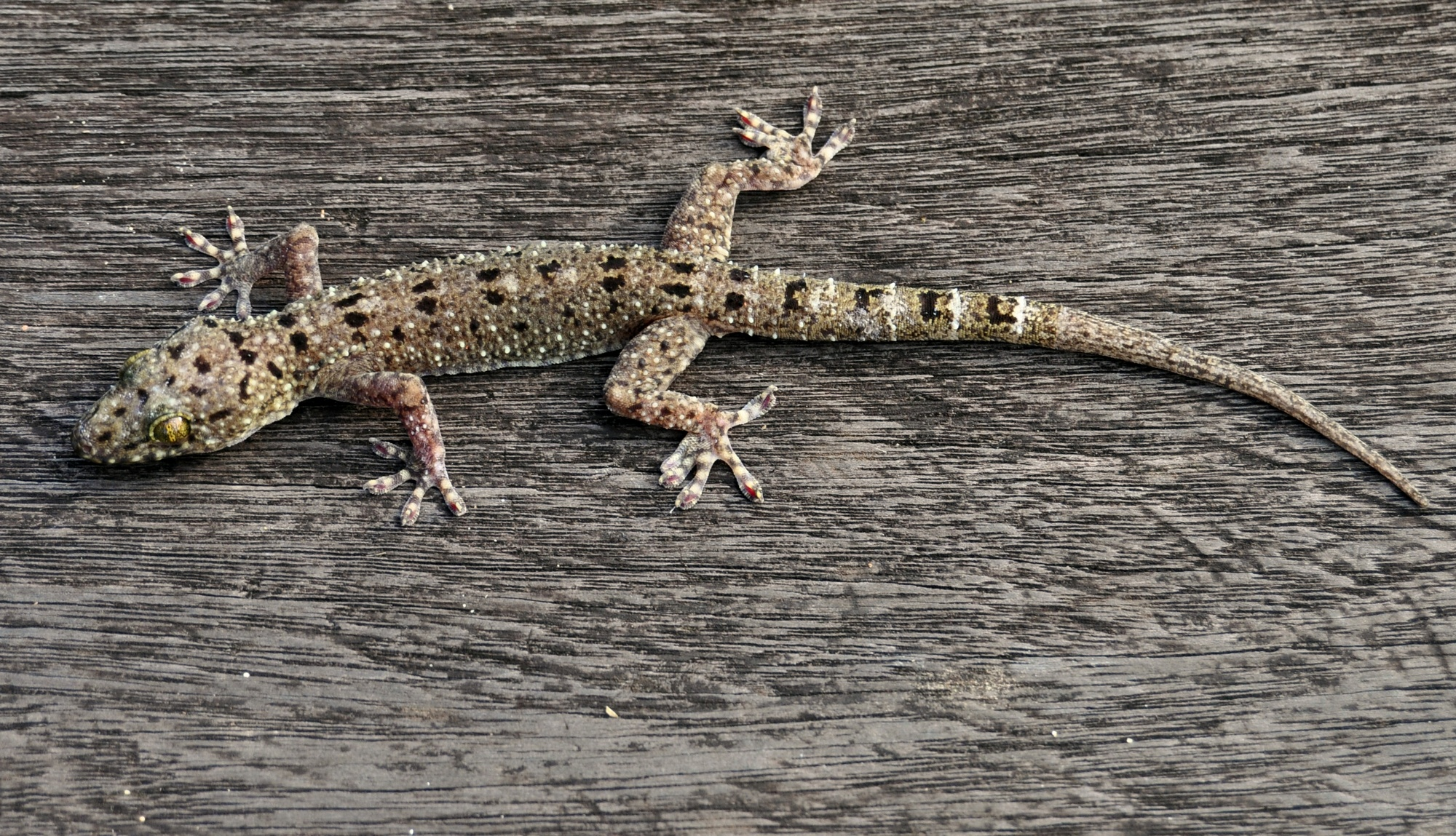 Gekko monarchus, Spotted House Gecko; female, 81mm SVL and 96 tail length. From oil-palm plantation in Upper Seruyan, Central Kalimantan, Indonesia